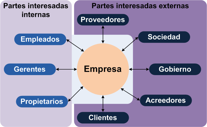 The picture shows the typical stakeholders of a company. The stakeholders are divided in internal and external stakeholders.